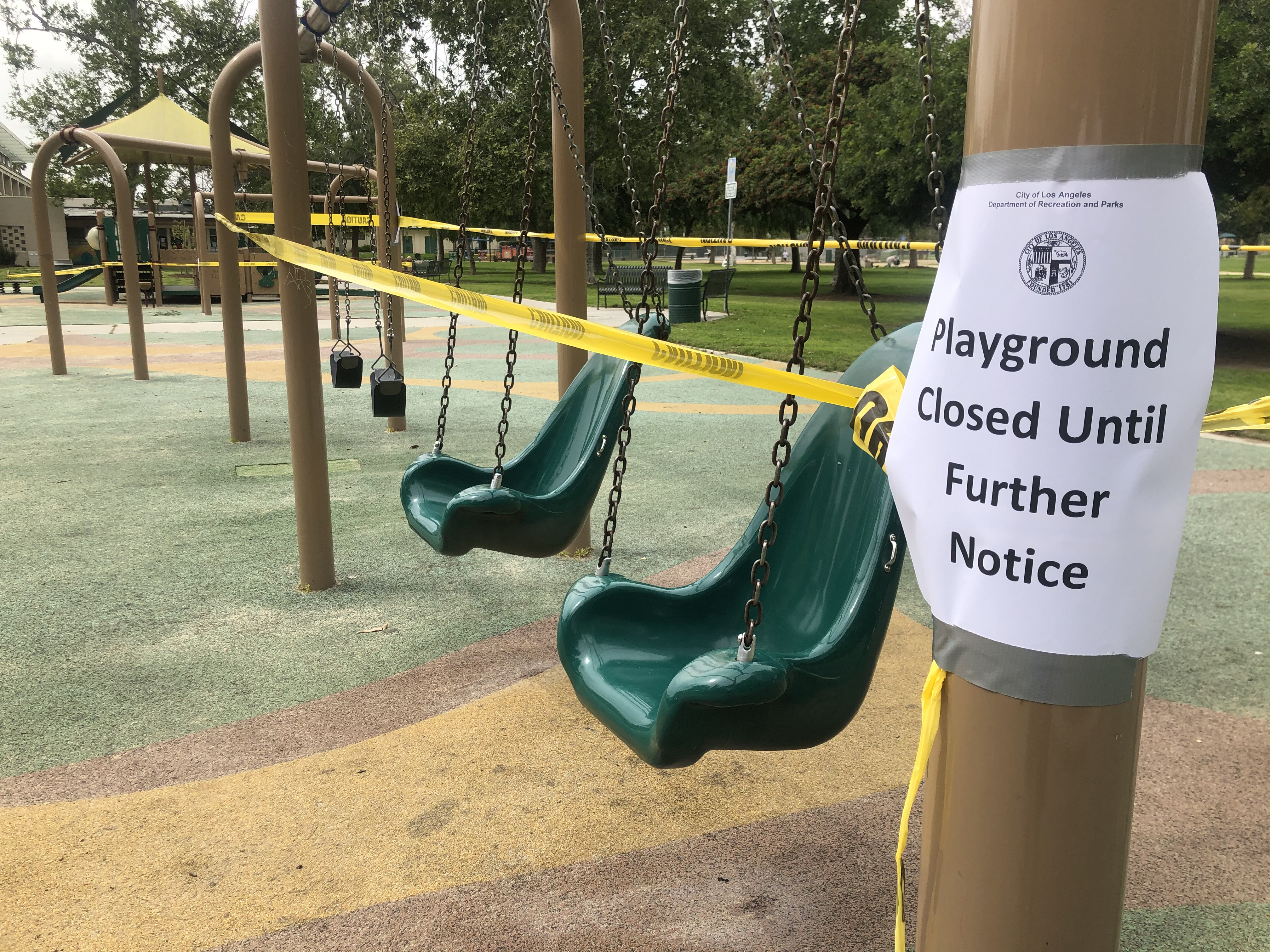 A Los Angeles playground closed due to COVID-19 lockdown with a sign that reads "Playground Closed Until Further Notice" and caution tape surrounding the swings and playground.